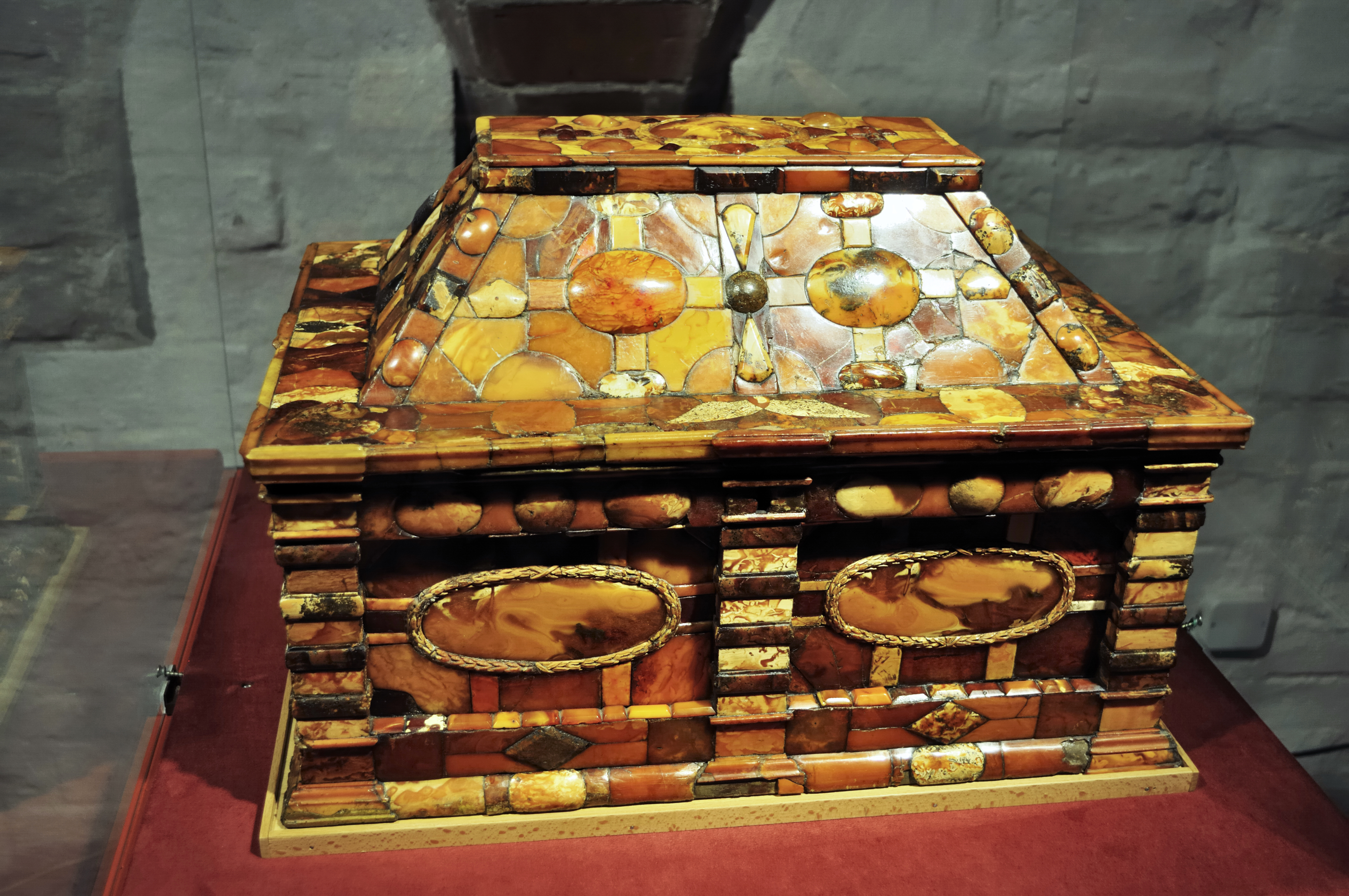 Picture taken in Malbork after Wikimania 2010 conference. Sarcophagus-type casket, made of several varieties of amber. Wooden structure; amber. Gdańsk, early 17th century.